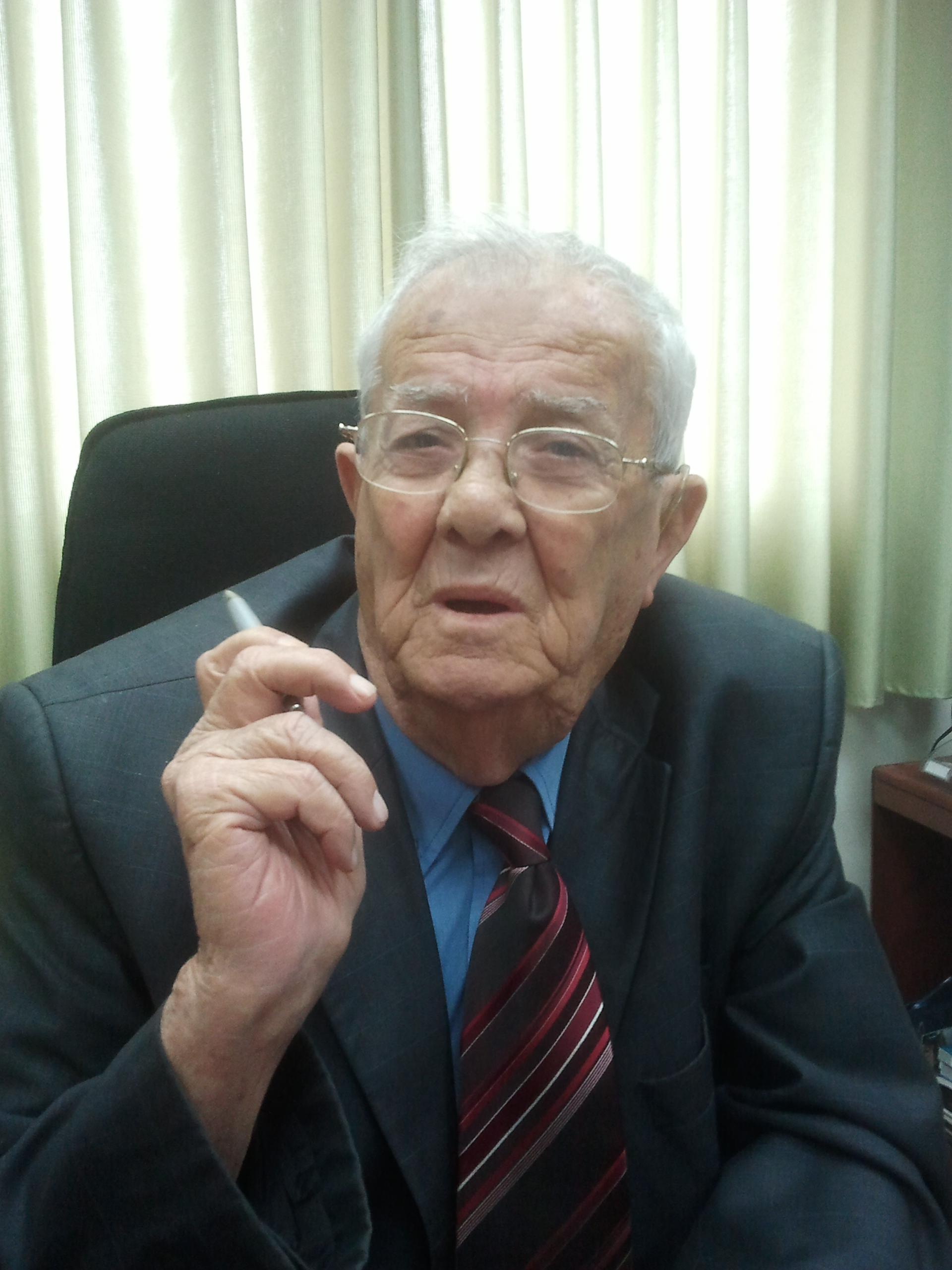 Amal Nasser el-Din, is a Druze Israeli author and former politician who served as a member of the Knesset for Likud between 1977 and 1988.